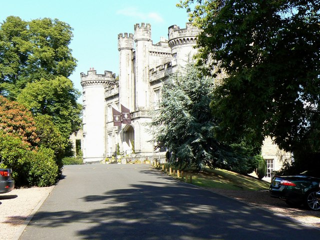 Airth Castle Hotel (old building) The hotel is in two parts, the original castle here and a modern conference centre etc. NS9886